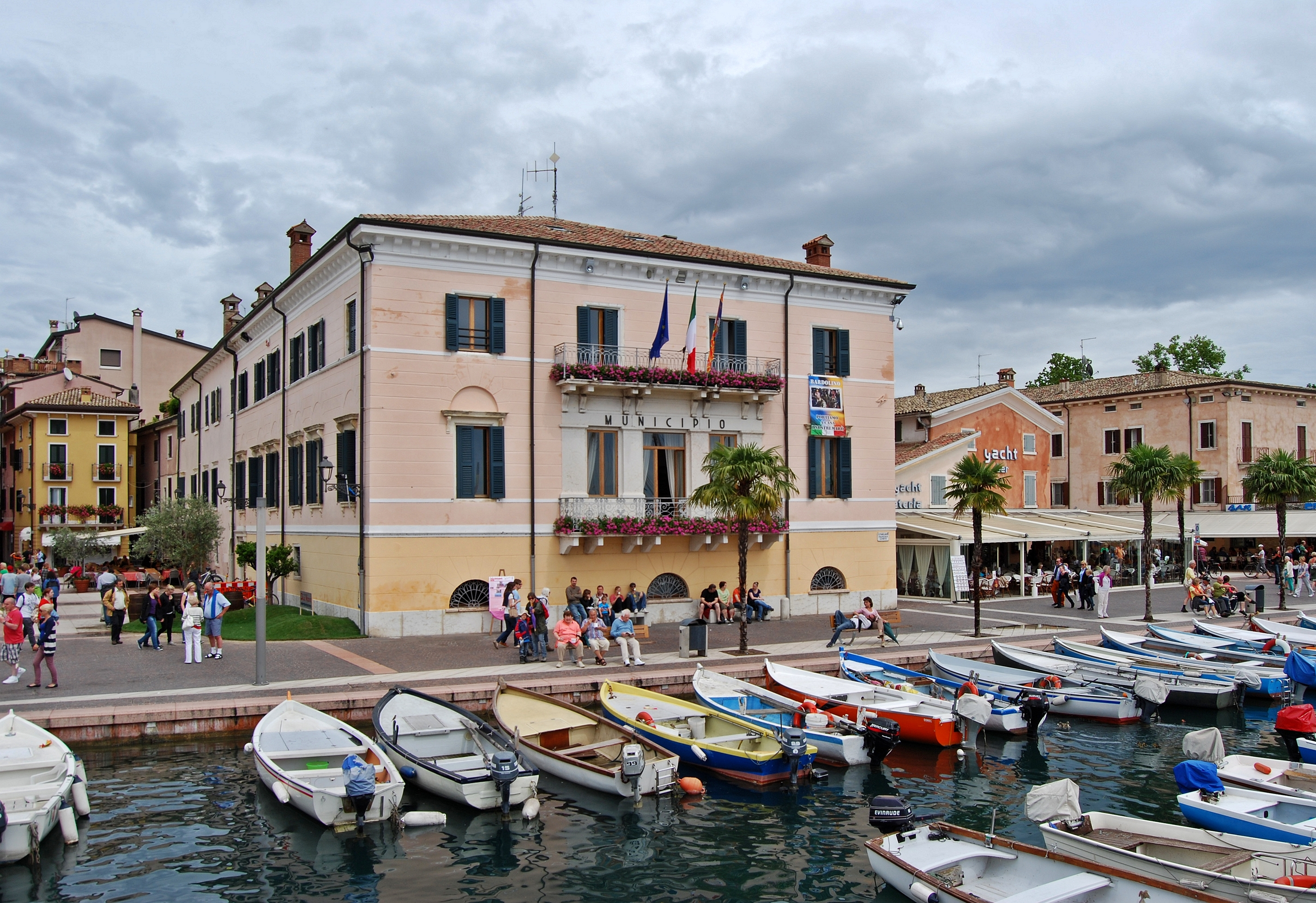 The town hall of Bardolino, Veneto.